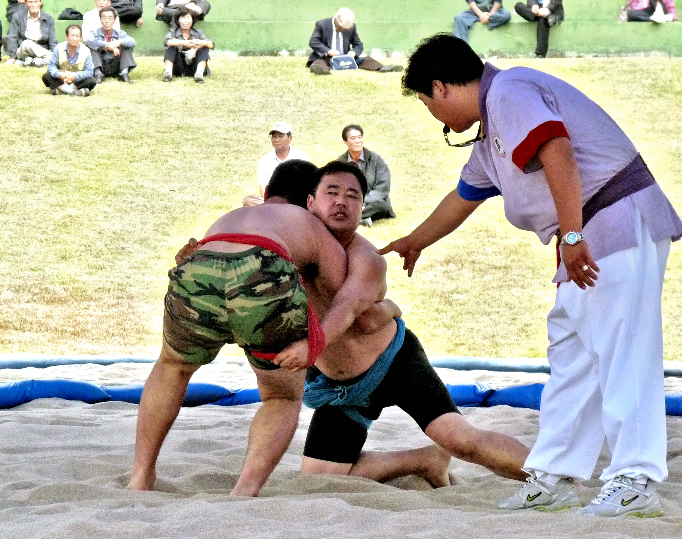 The 28th Gyeongju Citizens' Athletics Festival held in Hwangseong Park, Hwangseong-dong, Gyeongju, North Gyeongsang province, South Korea on October 10, 2008